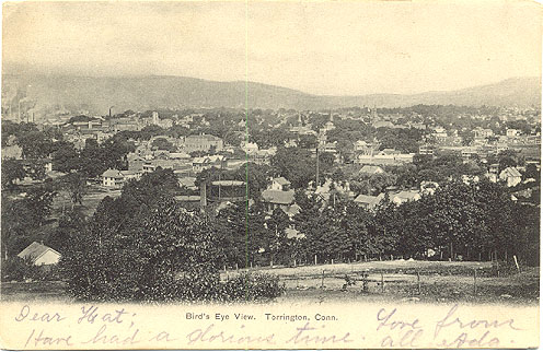 Postcard: Bird's Eye View, Torrington, Connecticut Postmark: 1906 Description: "Old Postcard showing a "Bird's Eye View" of Torrington, Connecticut. Postmarked 07/26/1906 on an UNdivided back. Published by THe American News Company - New York."